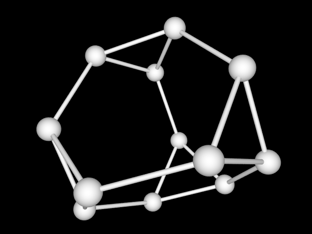 A rendering of a truncated tetrahedron network (the Cayley graph of the group A4)